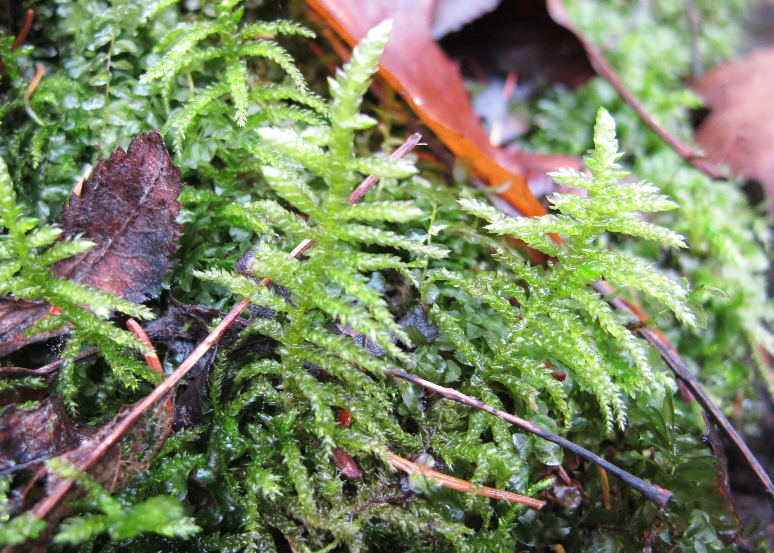 Nature reserve Bažantník near Sedmihorky - Karlovice, Semily District - Czech Republic